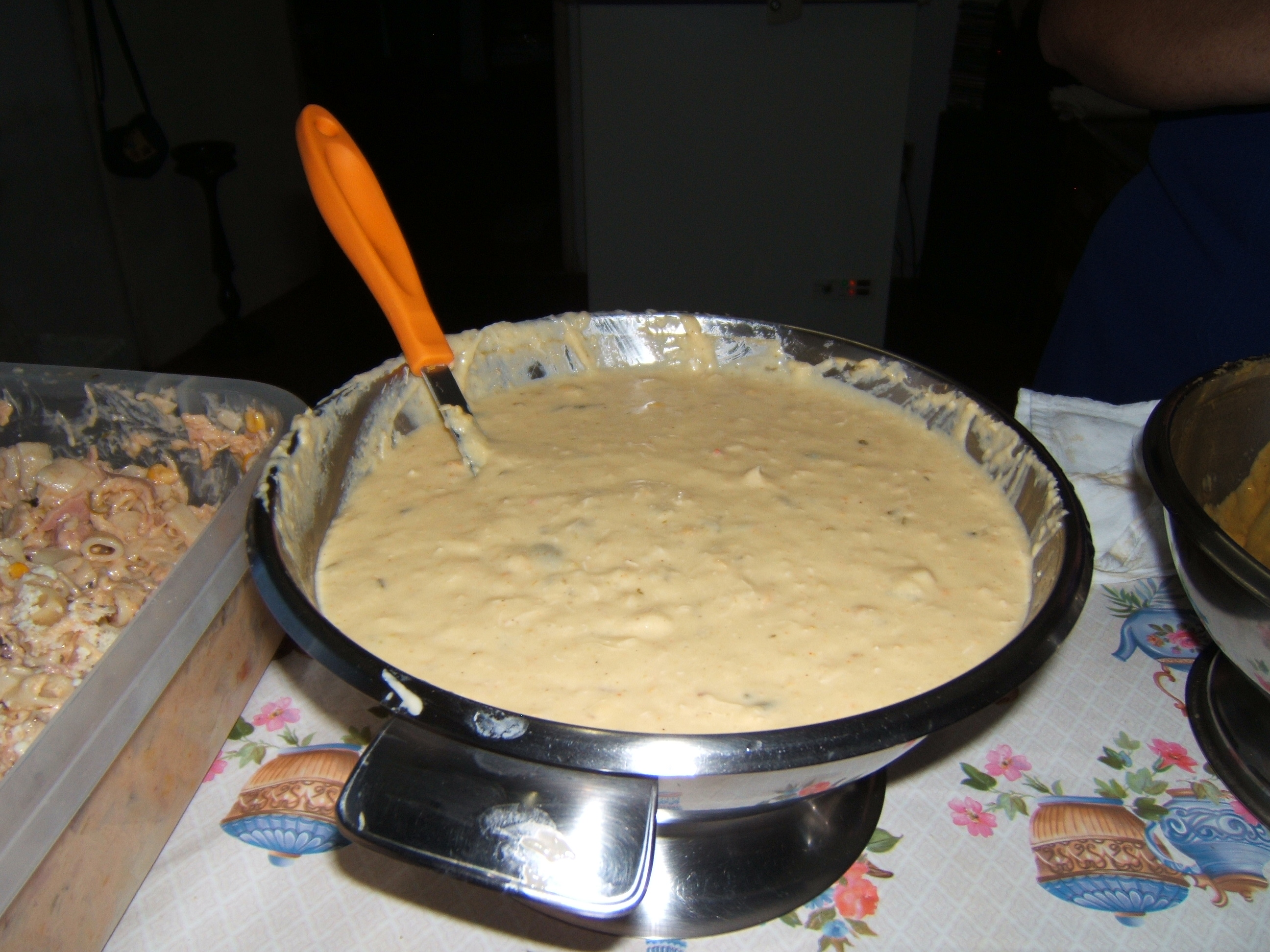 Typical dishe from Ceará, Creme de frango (Chicken cream)